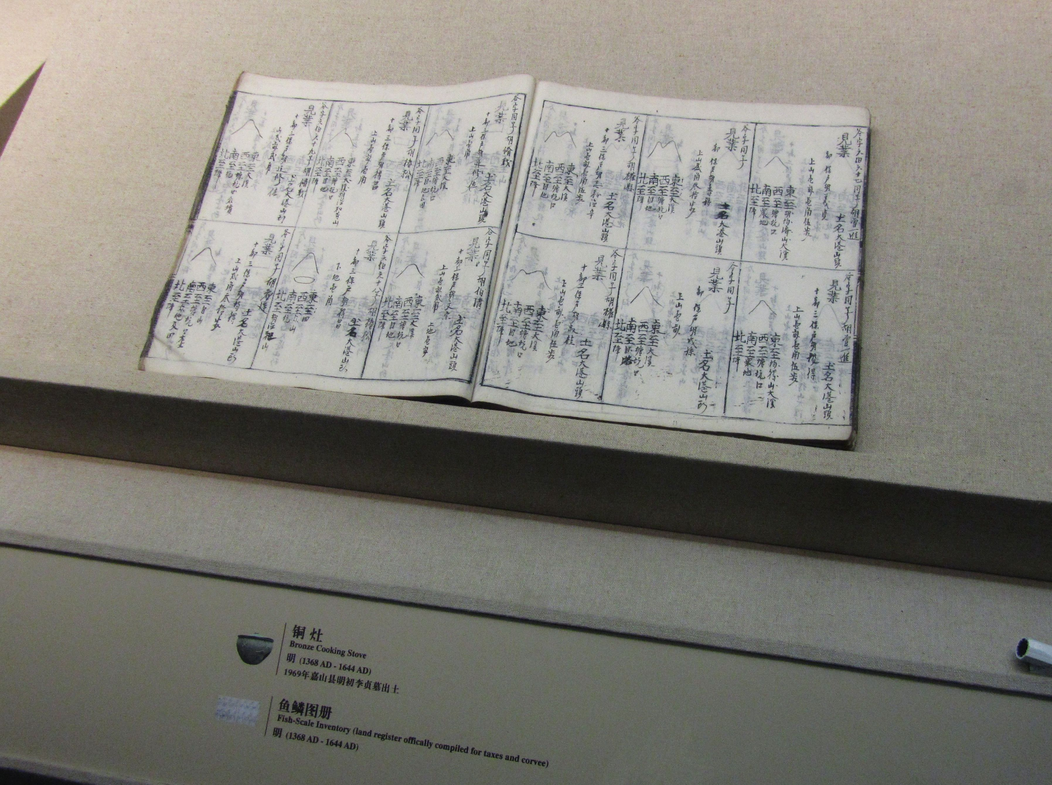 Fish-Scale Inventory, land register offically compiled for taxes and corvee.